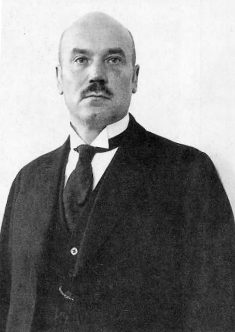 Toivo Kivimäki was the Prime ministers of Finland between 1932 and 1936.